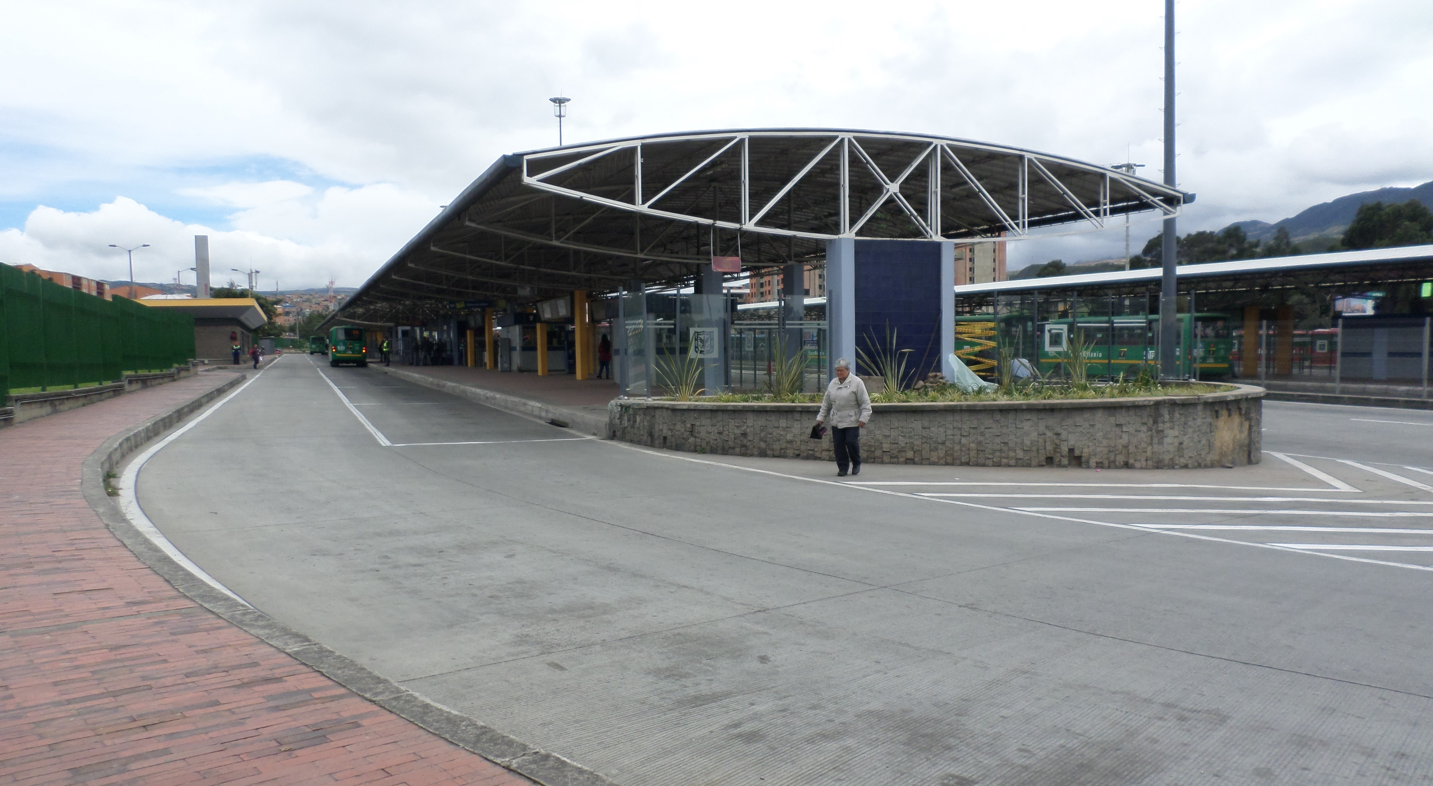 jjjjjjjjjjjjjjjjjjjjjjjjjjjjjjjjjjjjjjjjjjjjjjjjjj